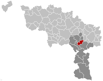 Map, municipality belgium Lobbes